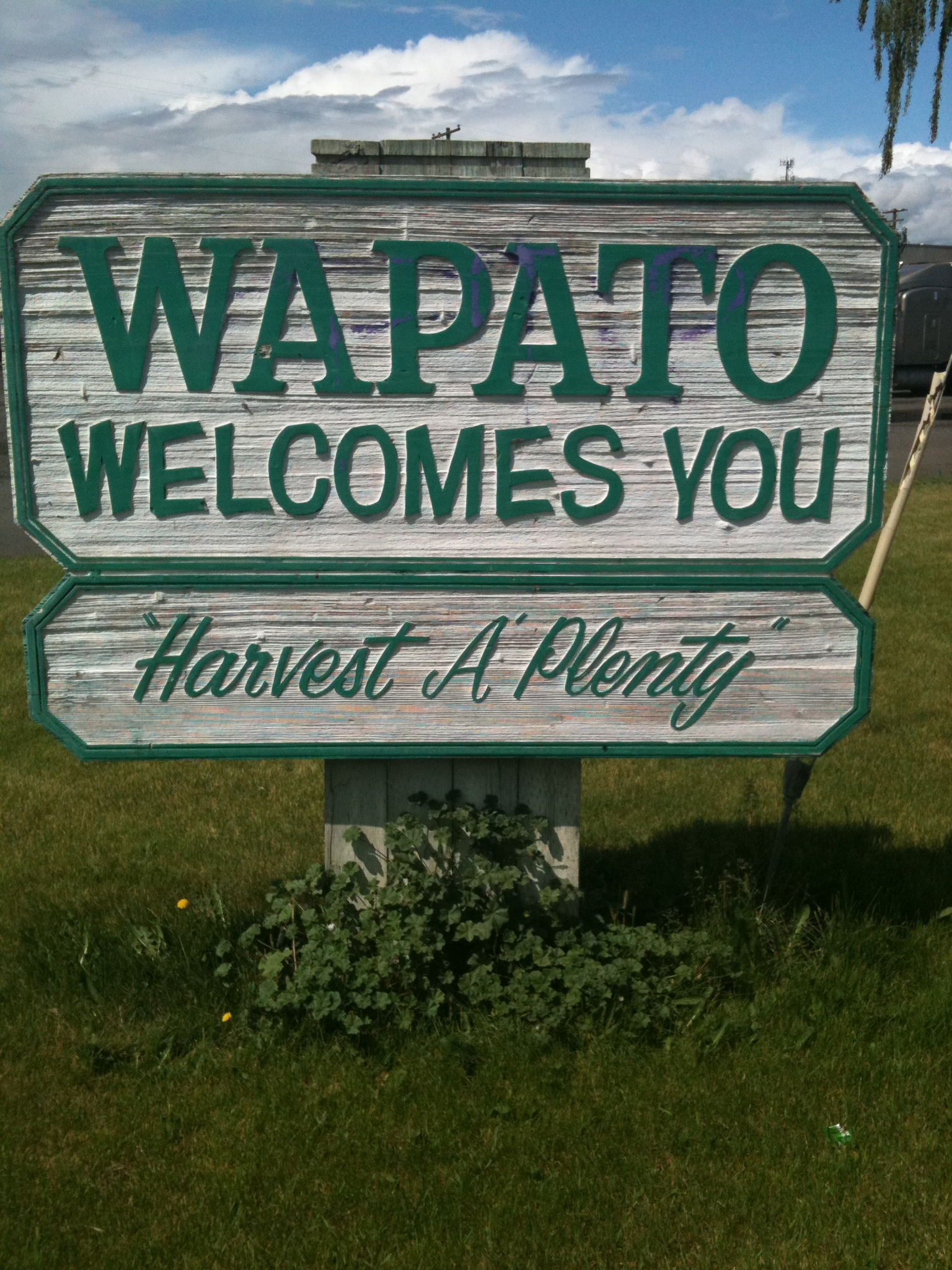 Wapato welcome sign